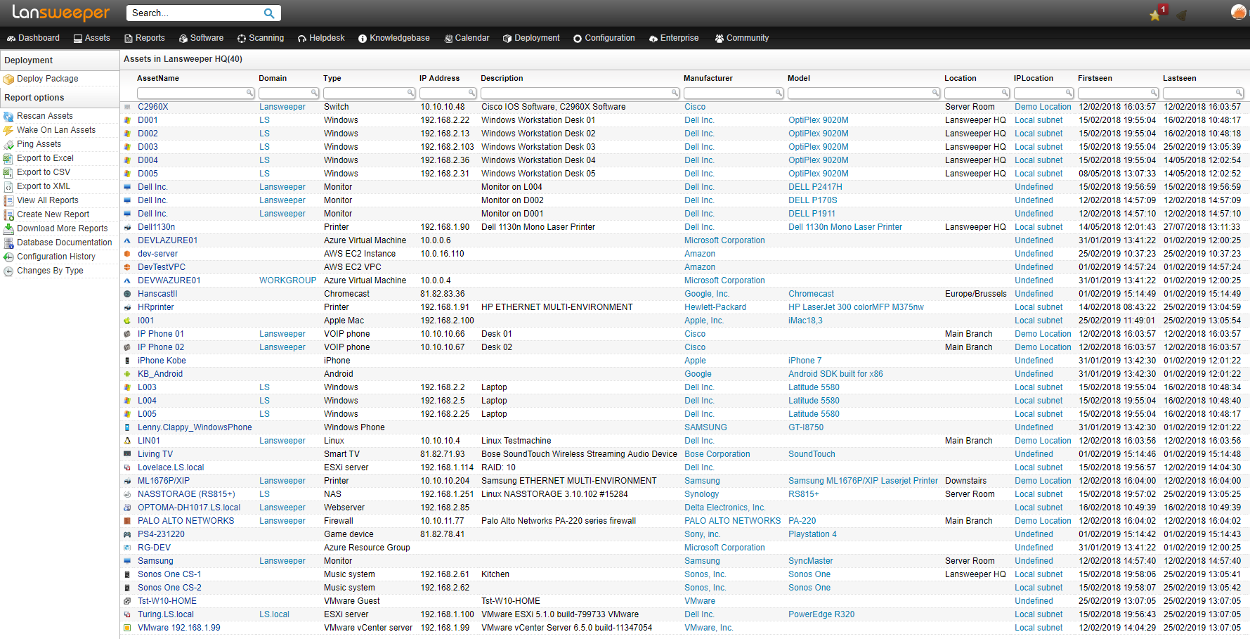 Static group view in Lansweeper 7.1.50